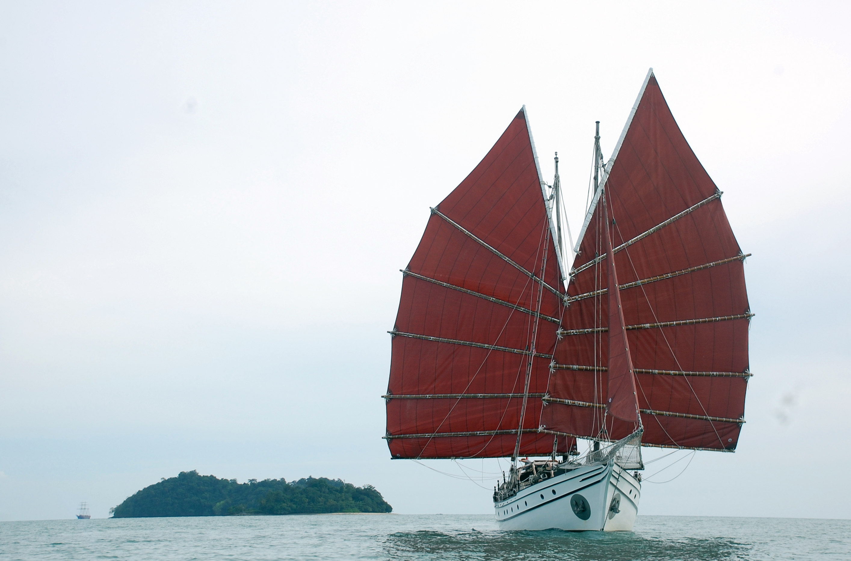 The Naga Pelangi sailing wing to wing in Langkawi, Malaysia